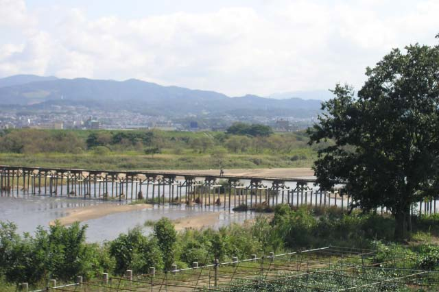 picture of the bridge in Japan